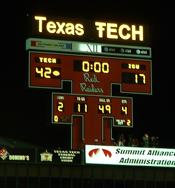 The Double-T scoredboard at Jones AT&T Stadium in Lubbock Texas following the Texas Tech Red Raiders' victory over the Iowa State Cyclones in 2007.